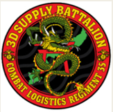 Logo for 3rd Supply Battalion]